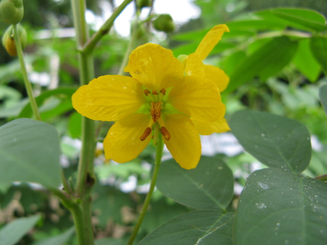 Senna occidentalis(Flower)